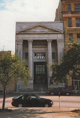 City National Bank Building, now the Galveston County Historical Museum, in downtown Galveston, Texas Photo taken around 1997 by myself.